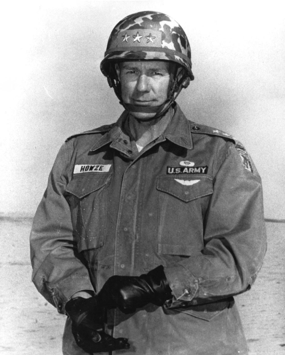 Portrait of Lt. Hen. Hamilton Howze